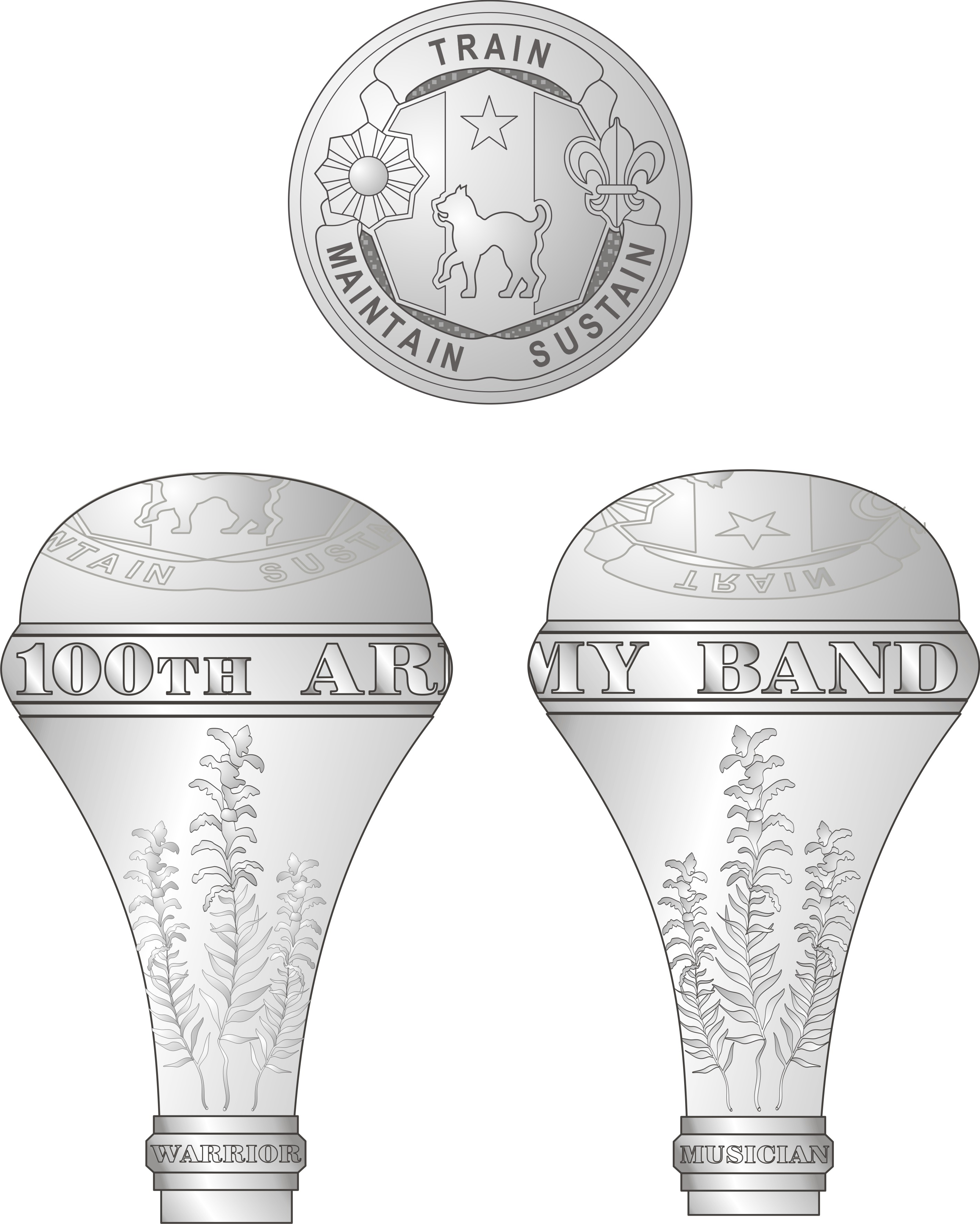 100th AB drum major's mace